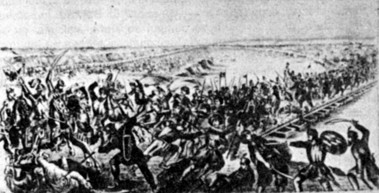 Battle of Rovine